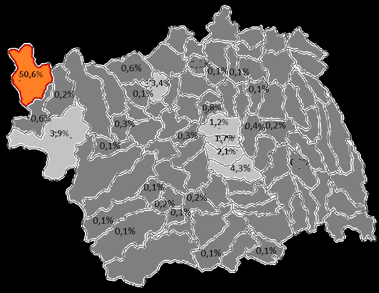 Proportion of Hungarians in Bacău County, Romania, according to the 2011 census.